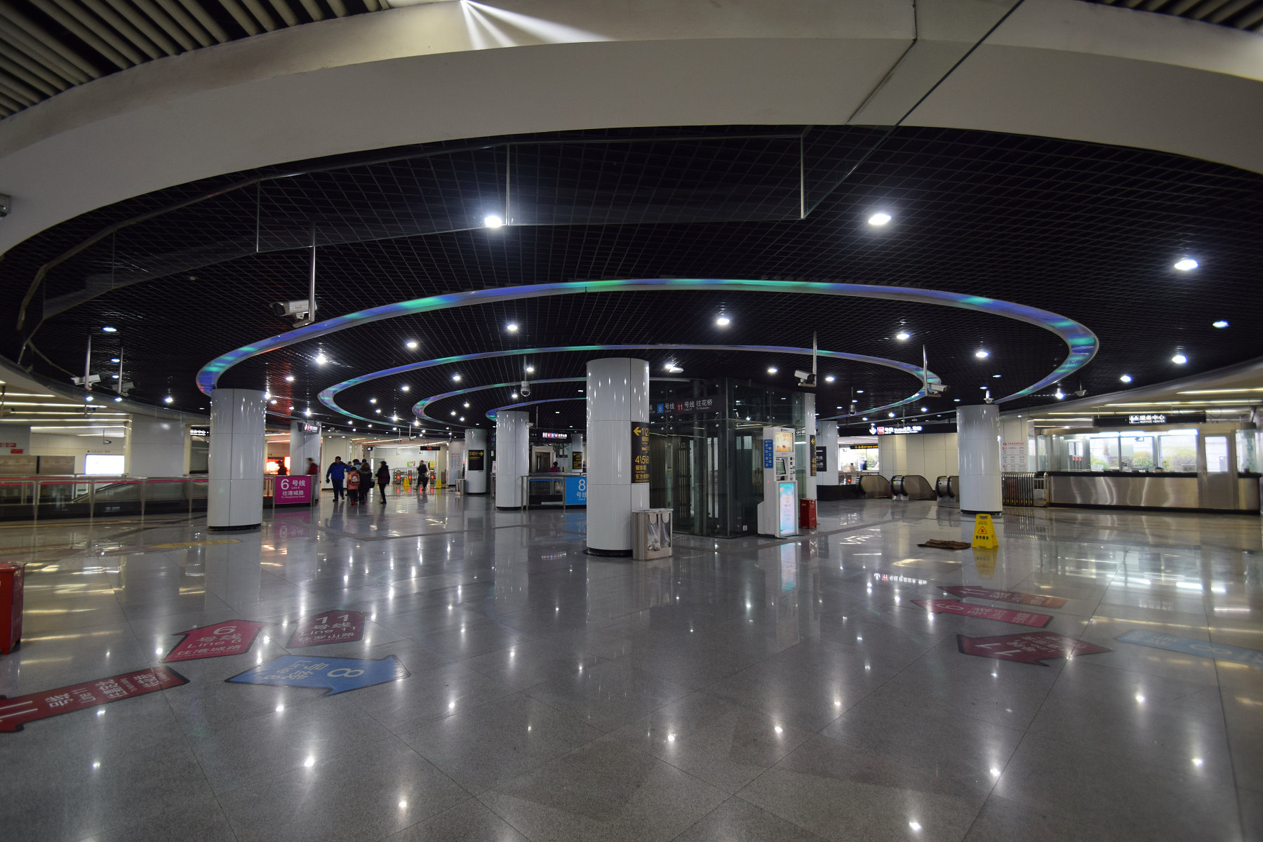 Interchange concourse of Oriental Sports Center Station, Shanghai Metro